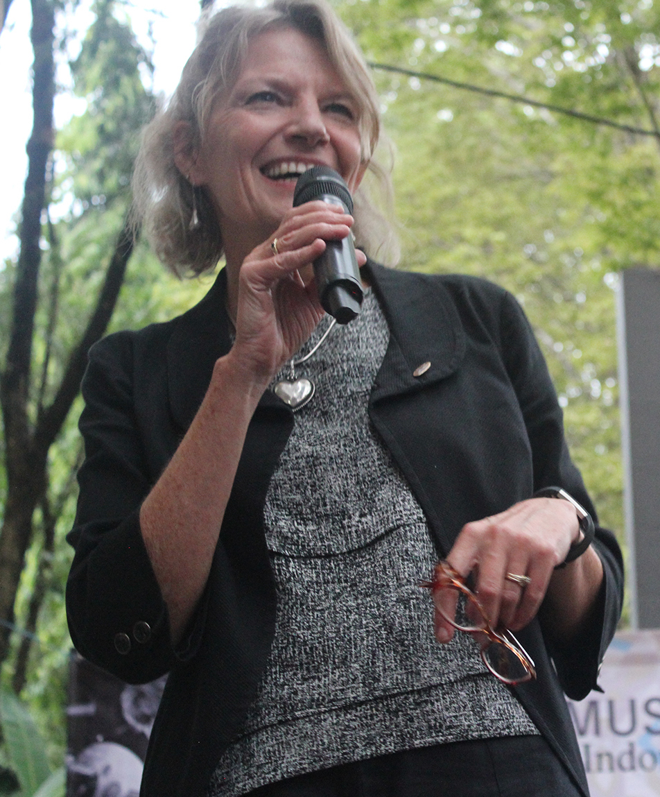 Anne Rasmussen moderates a discussion on Indonesian music.